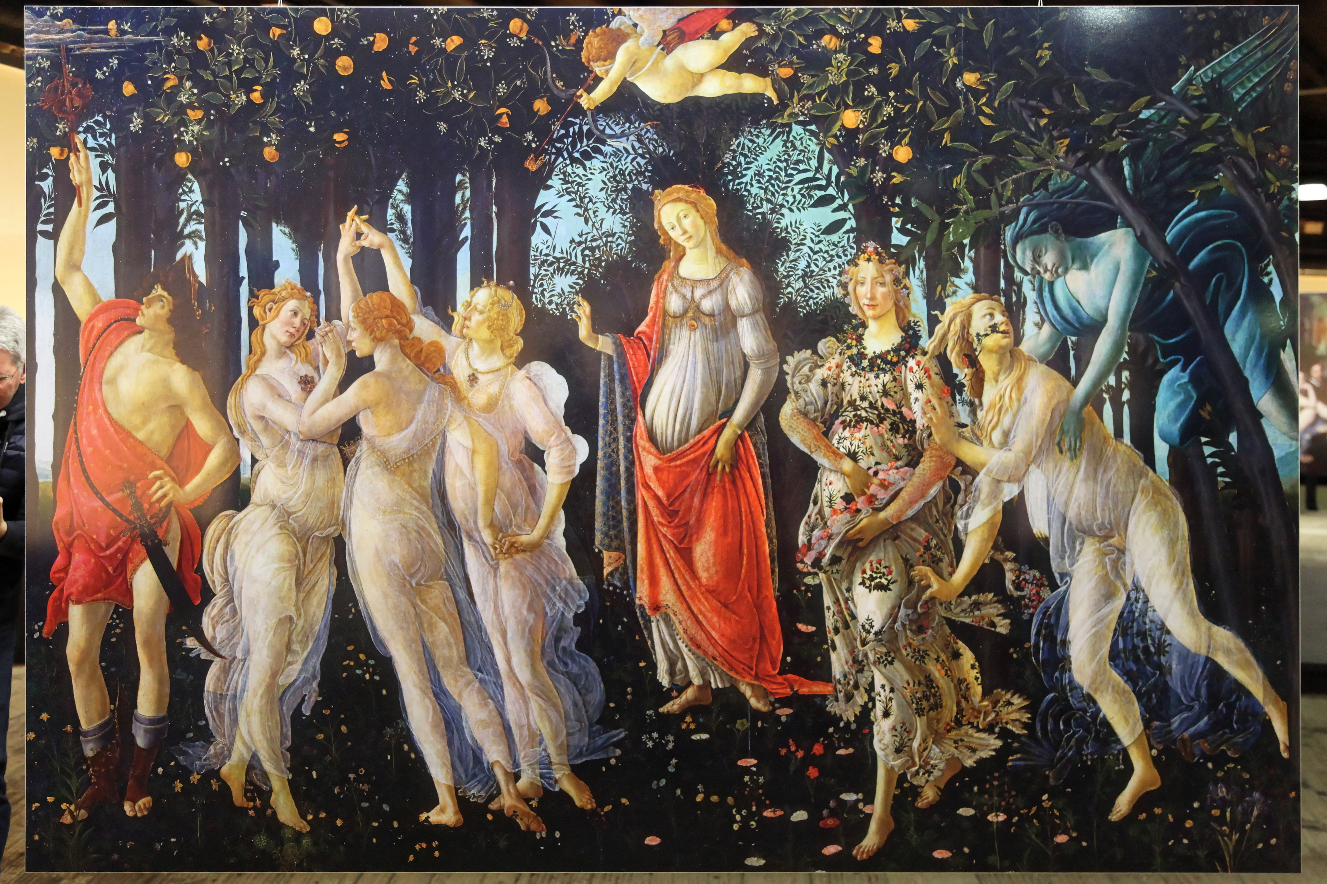 Primavera by Sandro Botticelli, "Der schöne Schein" exhibition of replicas of well-known artwork in the Gasometer in Oberhausen